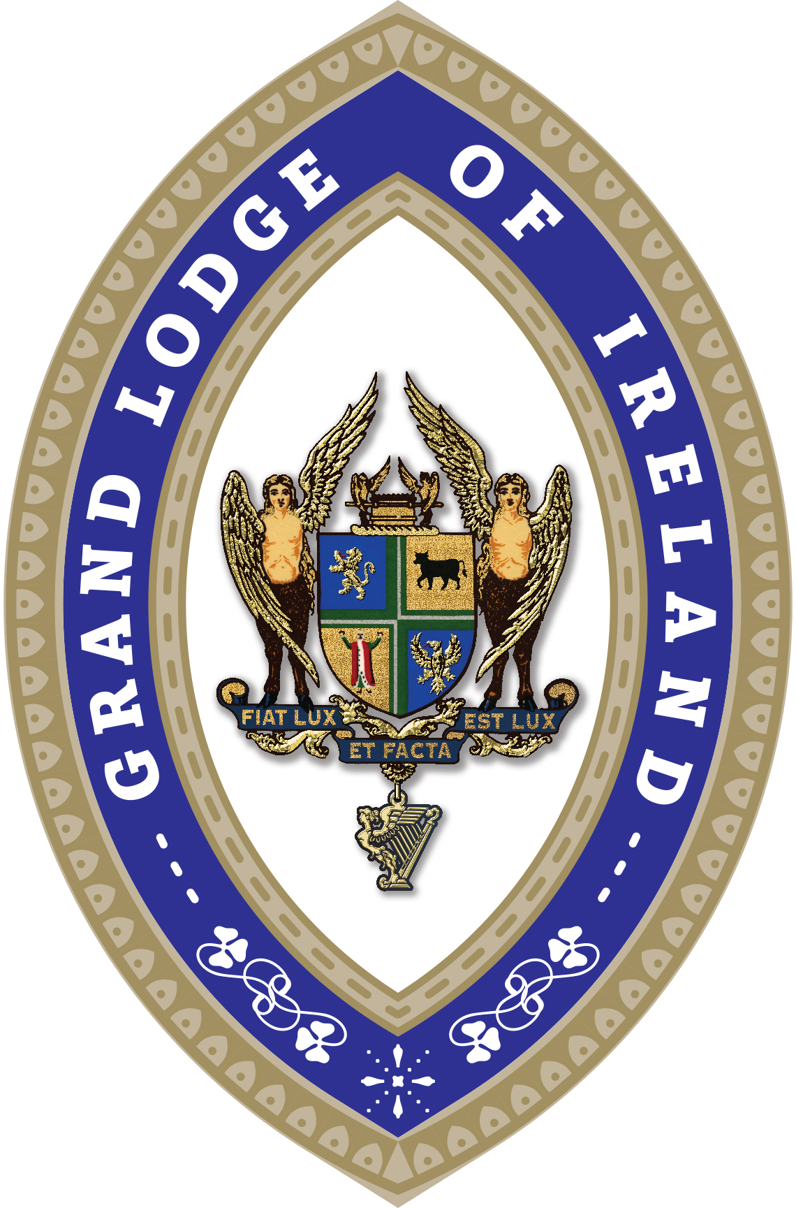 Grand Lodge of Ireland Logo